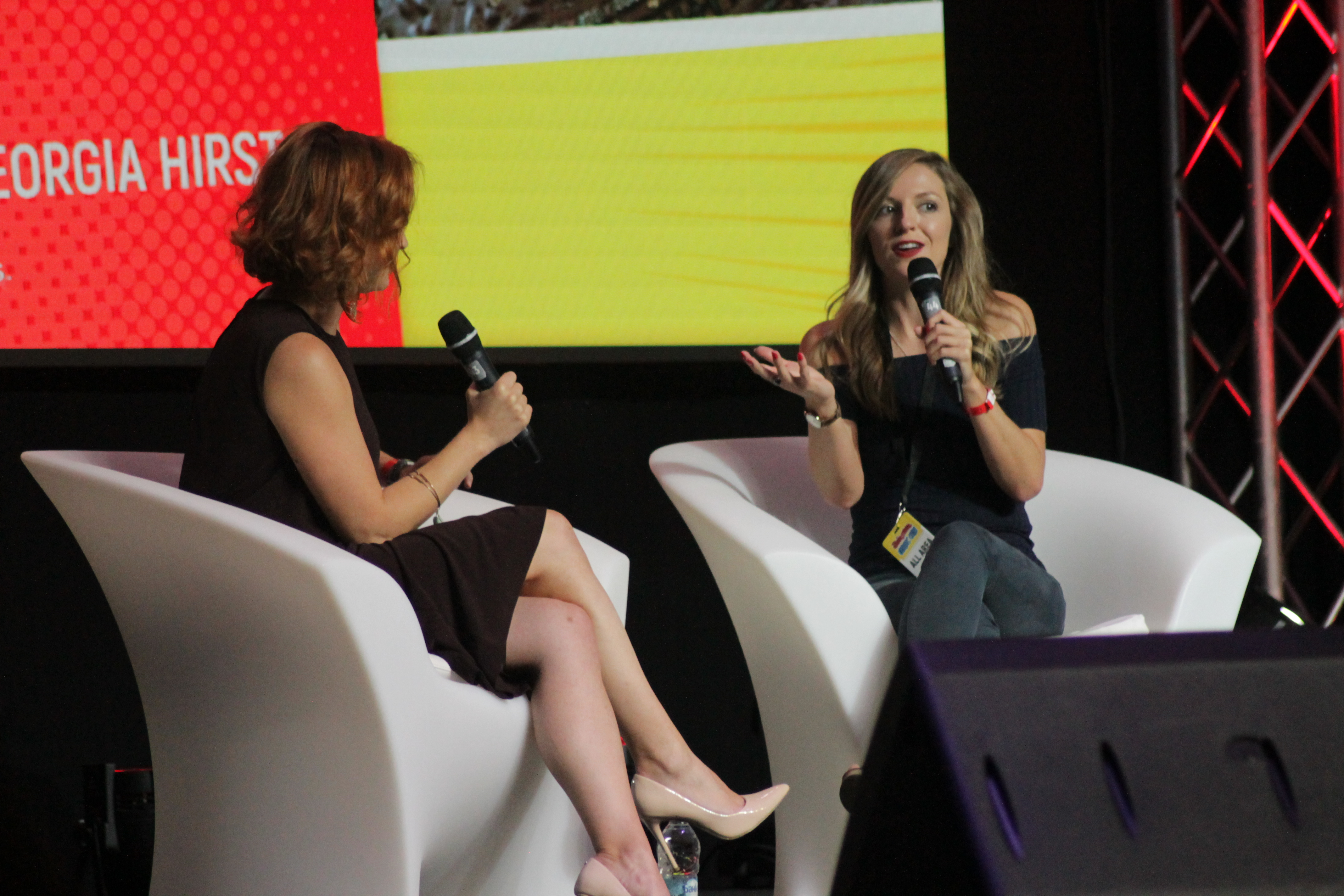 Maude Hirst talking about Vikings